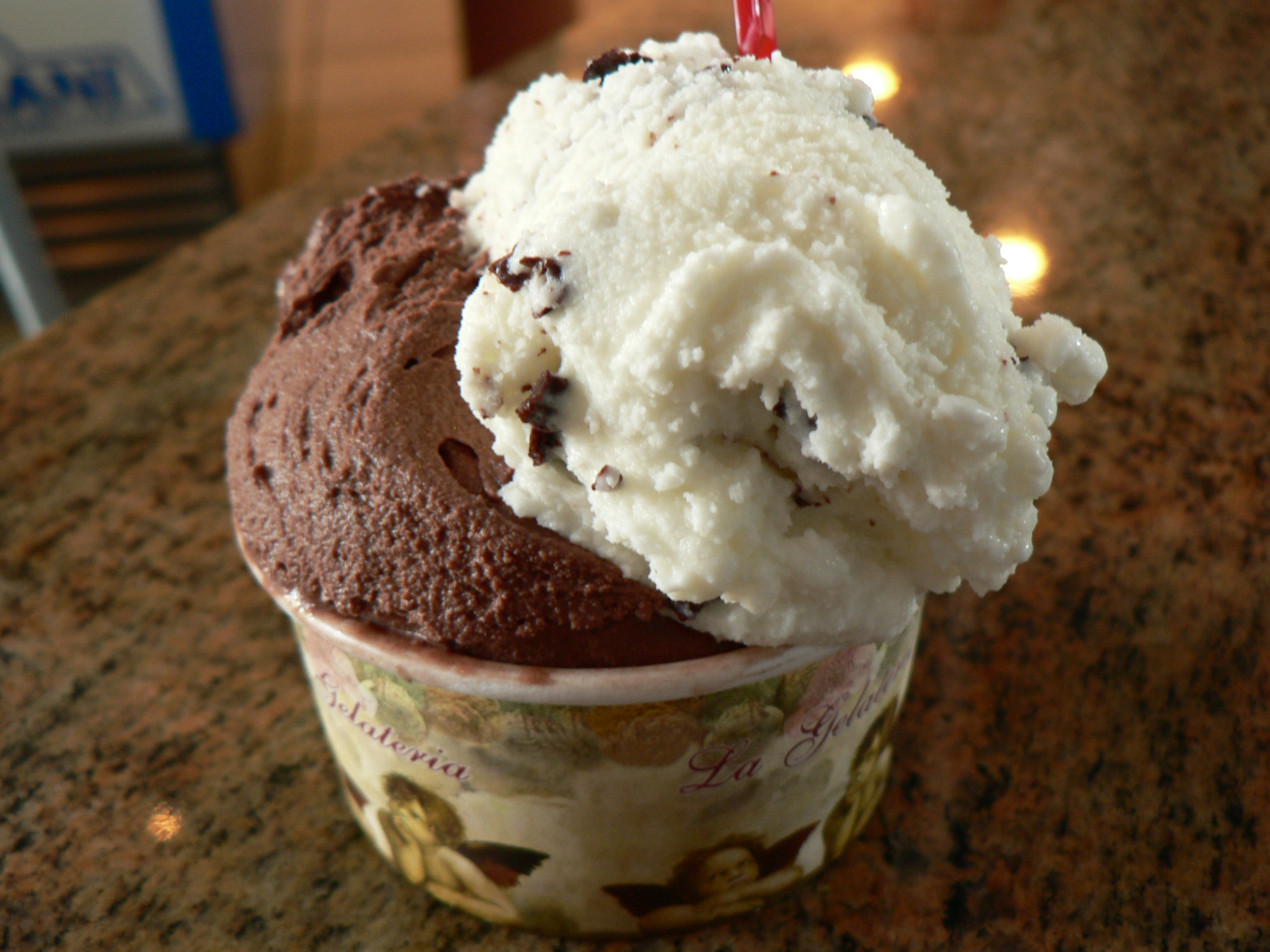 Sweet creamery deliciousness. This is now my all time favorite confection. The chocolate chips are not necessary but I don't let them get in the way of my appreciation of the unflavored ice cream. Oh, and the other flavor, as you may have guessed, is chocolate. Very good but no match for stracciatella.